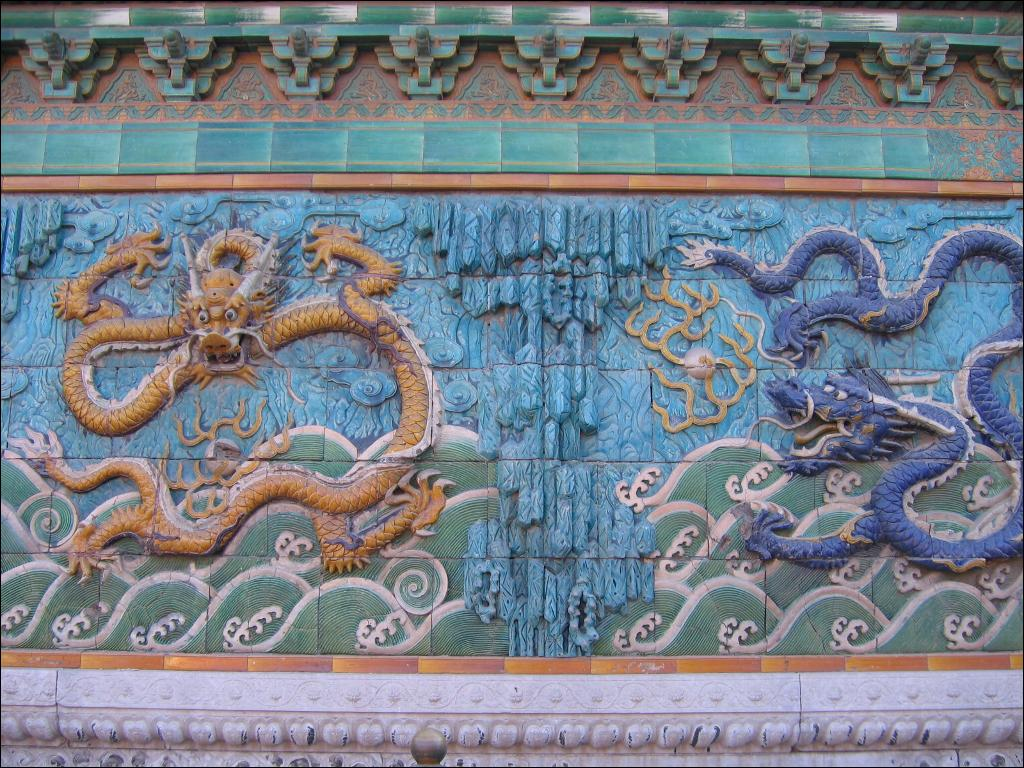 The Forbidden City in Beijing